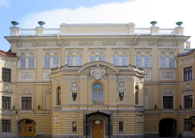 Cropped version of File:Glinka Capella 2004.jpg